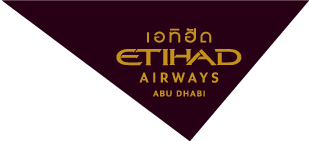 Etihad Thai logo